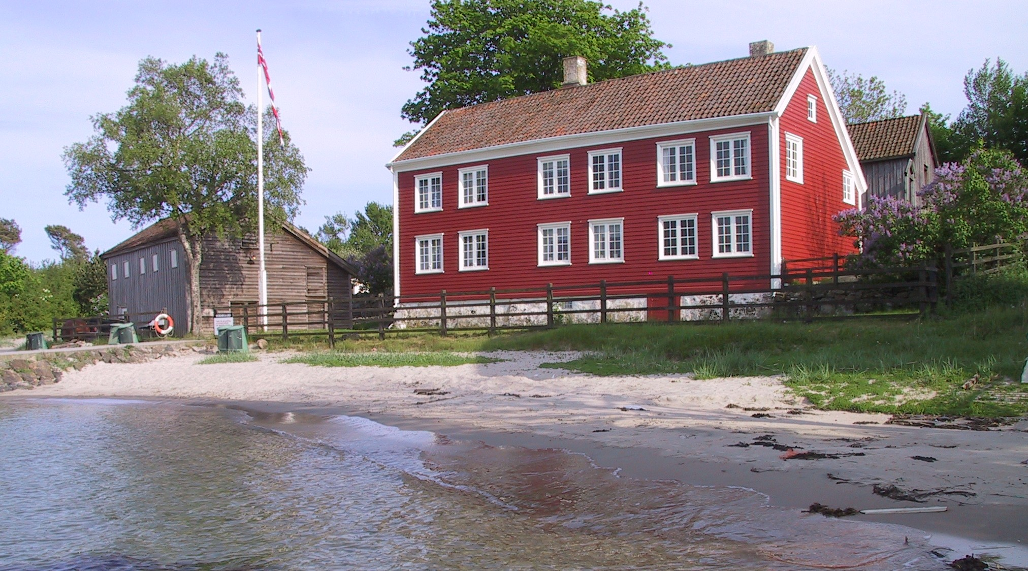 Merdøgaard Museum in Merdø, Arendal. The house is built in the middle of the 17th century.